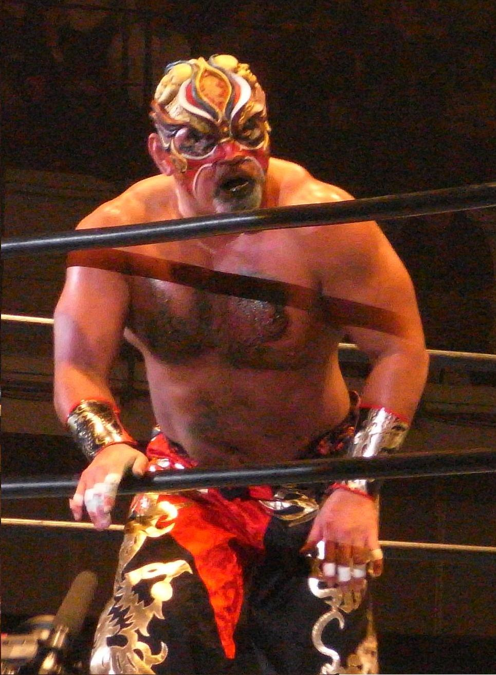 Professional wrestler Great Muta (Keiji Mutoh) at an All Japan Pro Wrestling event